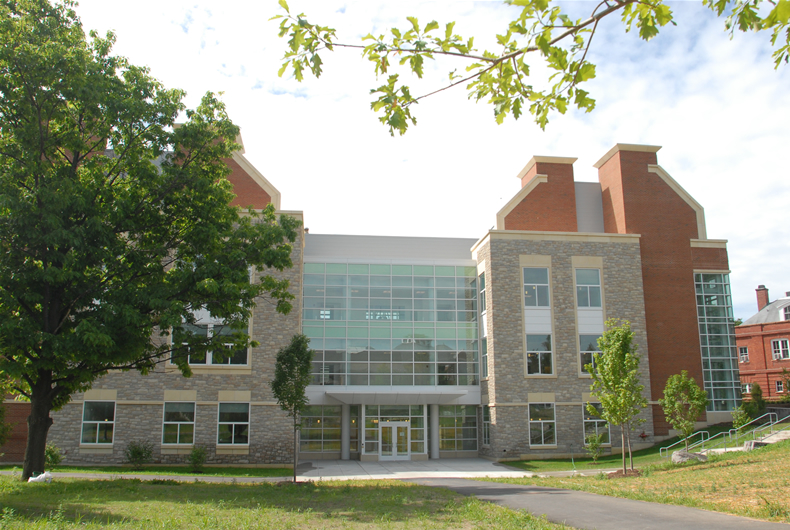 Johnson Hall of Science, St. Lawrence University